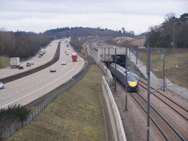 Train on CTRL, beside M20 Motorway and A20 This section of Box tunnel fits the Channel Tunnel Rail Link, in between these two important roads. The motorway (on left) leads to Maidstone and M25 from Ashford/ Folkestone. The A20 (on right) leads to Maidstone from Ashford, via various villages. The train on the link is heading to Ebbsfleet/London from Ashford/Folkestone. It is one of the new 'Javelin' commuter trains being tested out before going into service soon. All seen from Fairbourne Lane bridge No.818.